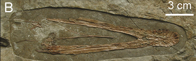 Liaoxipterus brachycephalus